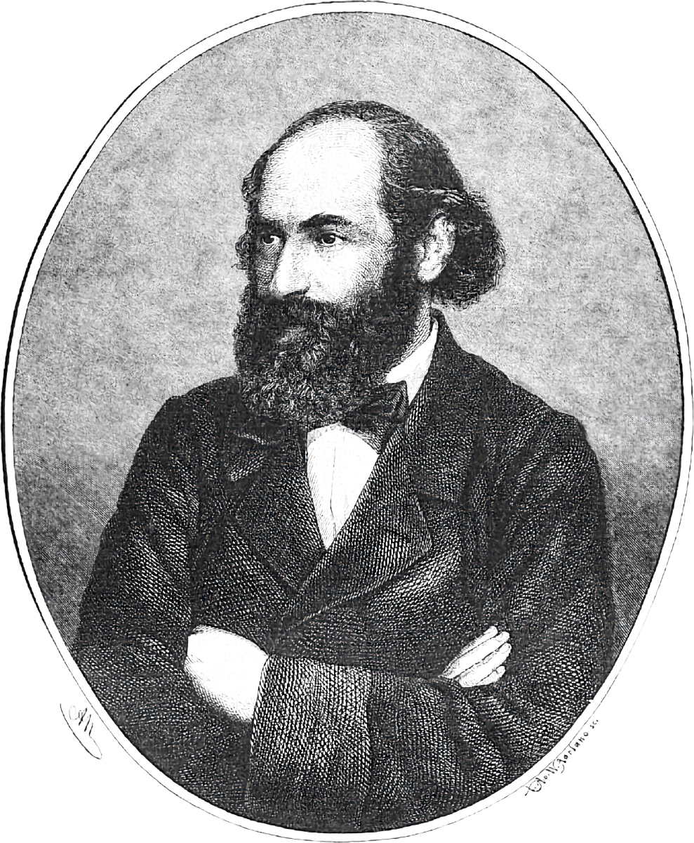 Moritz Hartmann (1821-1872), German poet and writer